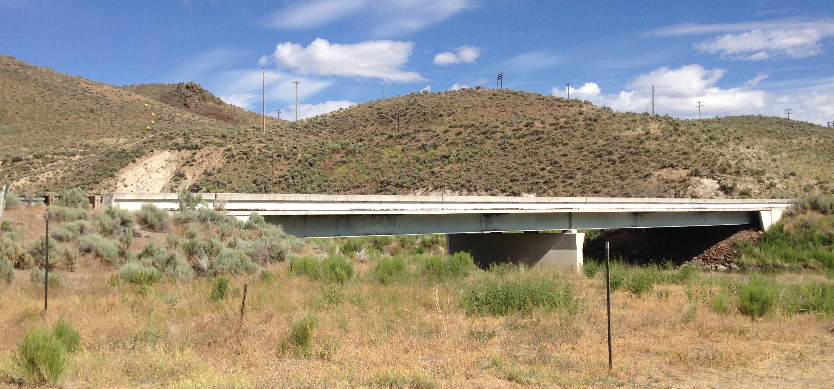 View of Nevada State Route 781 (Palisade Bridge) from the west in Palisade, Nevada-cropped